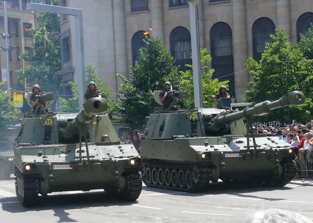 Two M109 A5 self-propelled howitzers of the Spanish Army, 2008 Spanish Armed Forces day's parade, in Zaragoza (Spain).